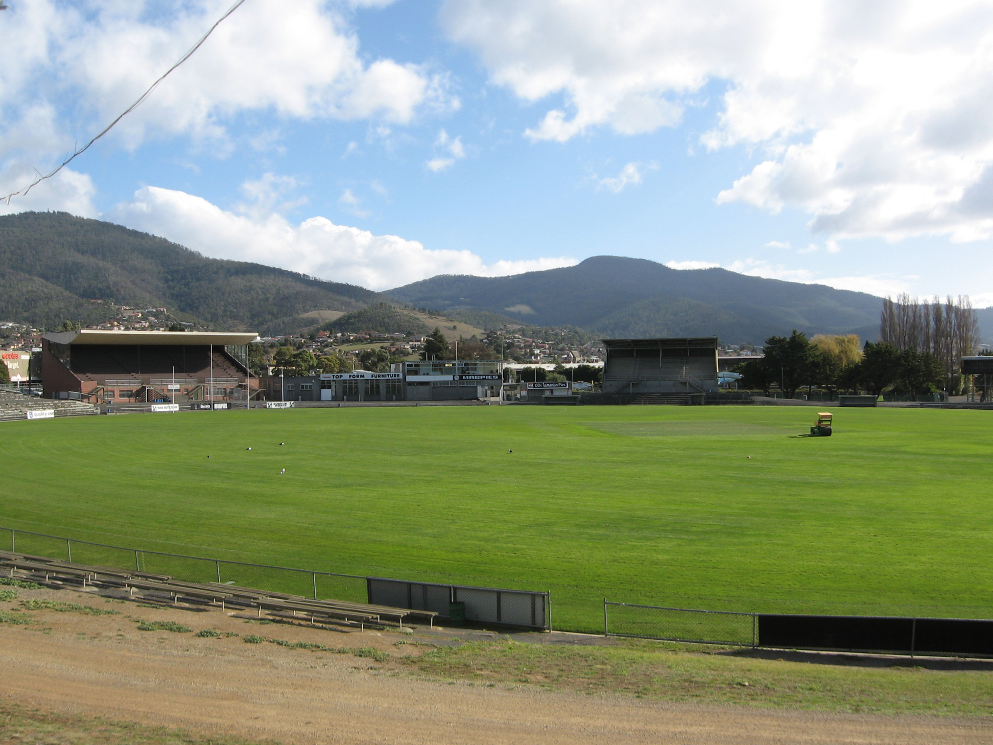 KGC oval, took picture myself.